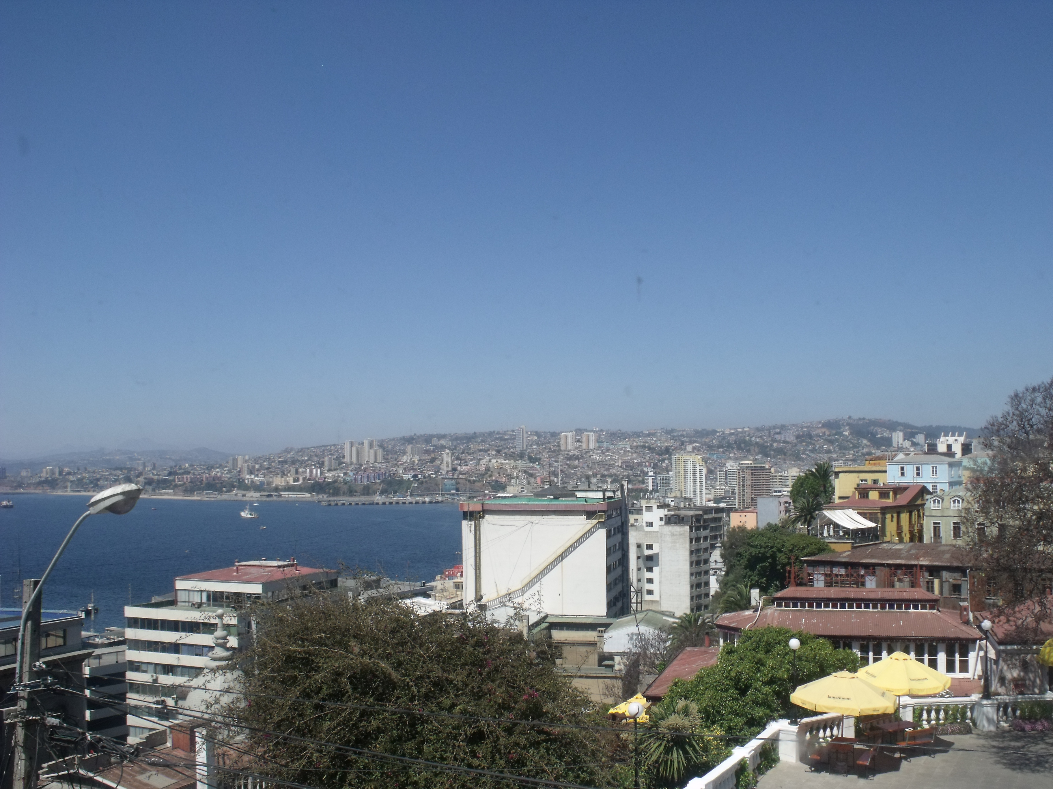 City of Valparaiso, Chile